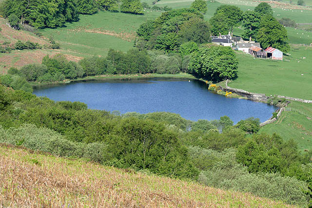 Lochspouts Reservoir A small reservoir viewed from Craigfin Hill with Lochspouts Farm behind.